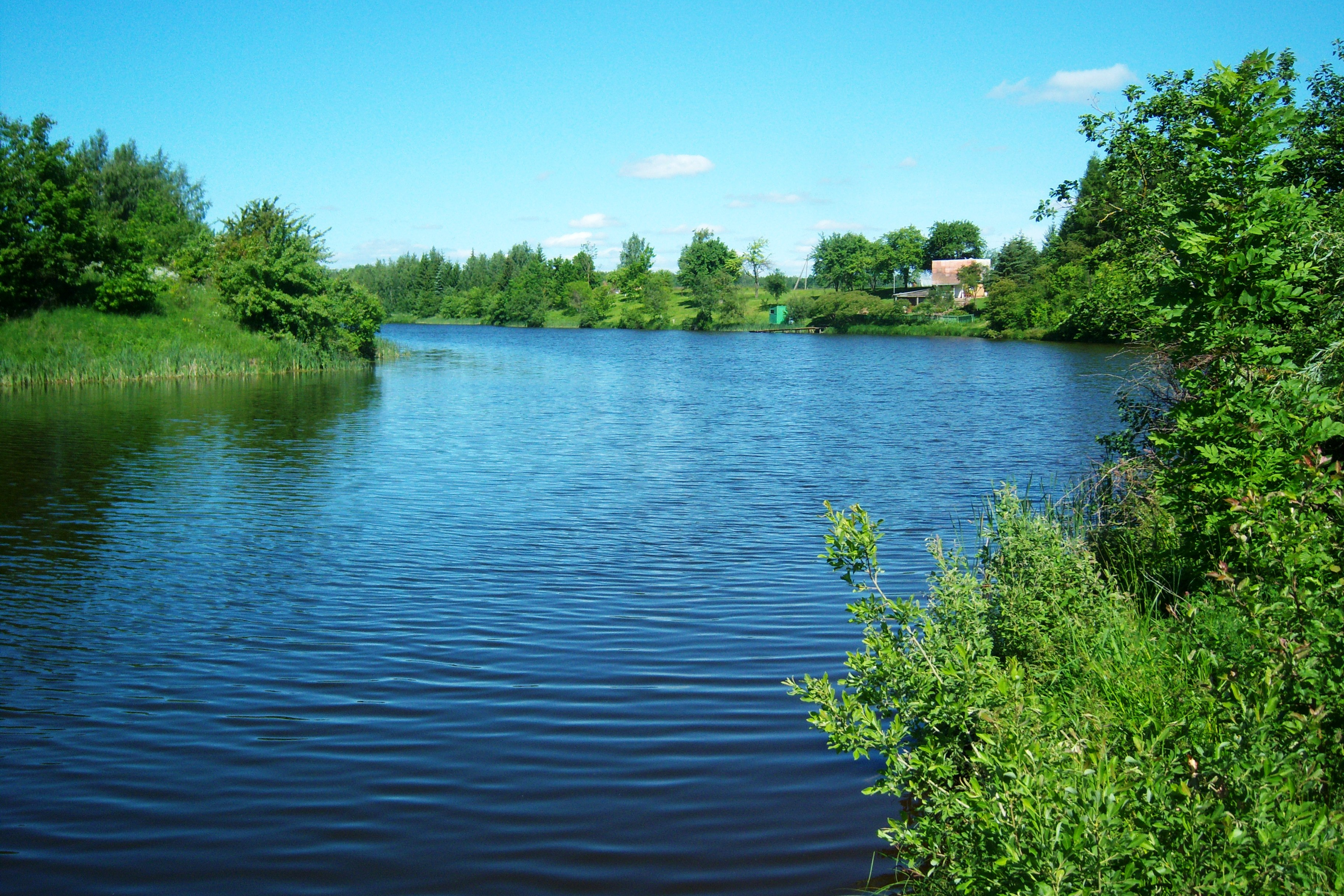 Pond in Bernatoniai, Kaunas district. Lithuania